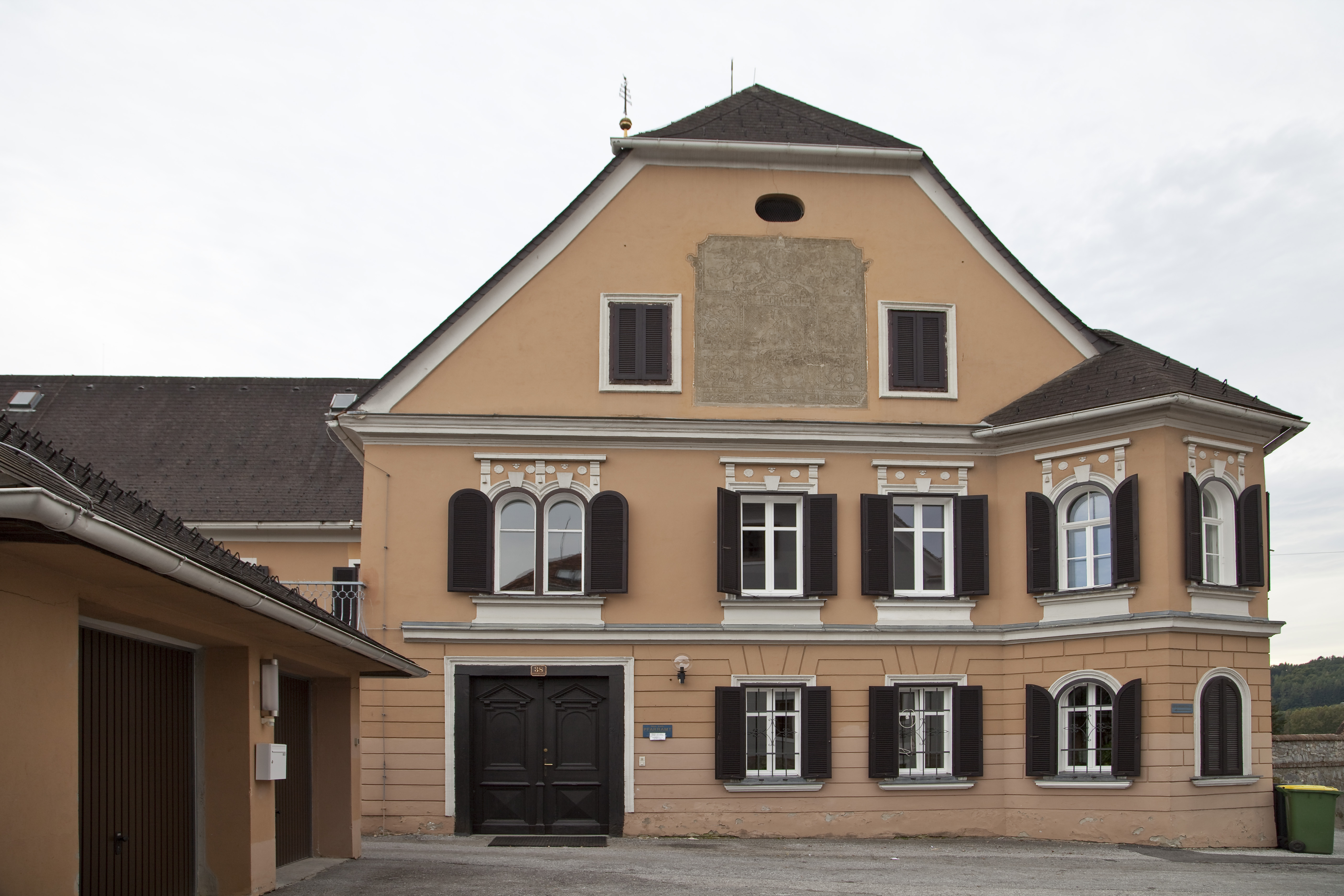 Pfarrhof (Dechantei)